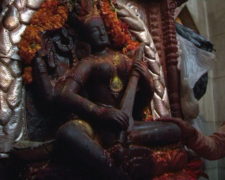 God statue in nepal